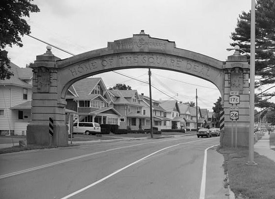 Endicott-Johnson Workers Arch, Approximately 250' east of intersection of Bridge , Endicott (Broome County, New York) cropped This file comes from the Historic American Buildings Survey (HABS), Historic American Engineering Record (HAER) or Historic American Landscapes Survey (HALS). These are programs of the National Park Service established for the purpose of documenting historic places. Records consist of measured drawings, archival photographs, and written reports. When reusing please credit: Library of Congress, Prints & Photographs Division, NY,4-ENDI,1-4 This tag does not indicate the copyright status of the attached work. A normal copyright tag is still required. See Commons:Licensing for more information. This work is in the public domain in the United States because it is a work prepared by an officer or employee of the United States Government as part of that person’s official duties under the terms of Title 17, Chapter 1, Section 105 of the US Code. See Copyright. Note: This only applies to original works of the Federal Government and not to the work of any individual U.S. state, territory, commonwealth, county, municipality, or any other subdivision. This template also does not apply to postage stamp designs published by the United States Postal Service since 1978. (See § 313.6(C)(1) of Compendium of U.S. Copyright Office Practices). It also does not apply to certain US coins; see The US Mint Terms of Use. This file has been identified as being free of known restrictions under copyright law, including all related and neighboring rights. Object location42° 06′ 41″ N, 75° 56′ 46″ W